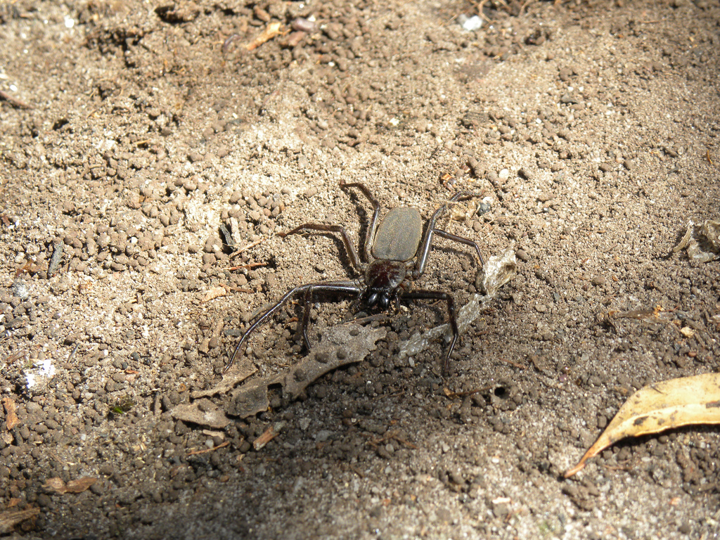 Flat Rock Spider=Hemicloea major= Morebilus plagusius